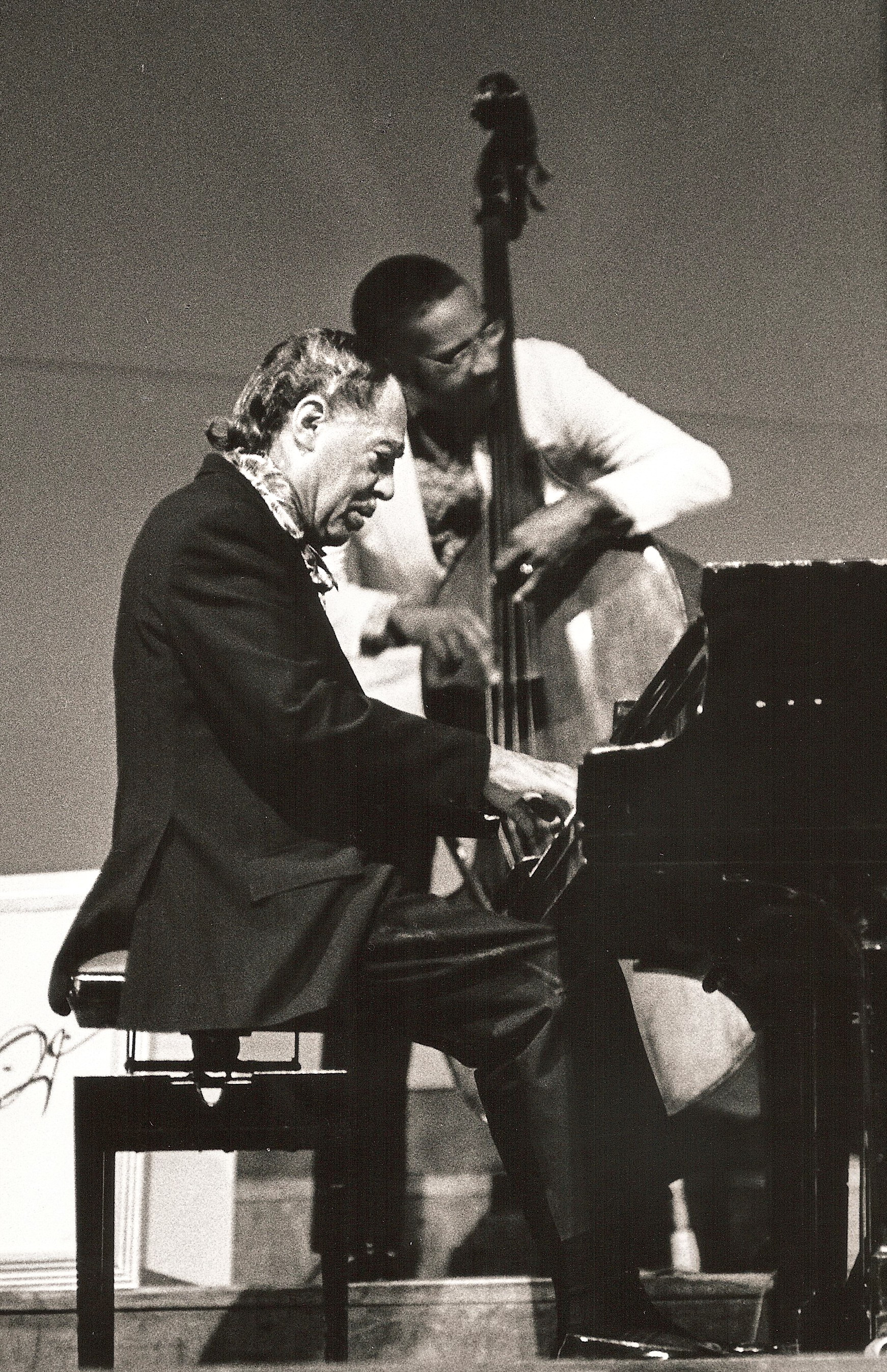 Duke Ellington plays piano, Munich 1973